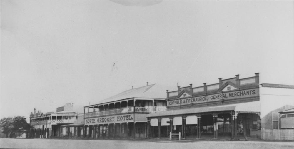 Businesses along Elderslie Street, Winton, Queensland, ca. 1930. Buildings along Elderslie Street at Winton, around 1930, including the North Gregory Hotel and Corfield & Fitzmaurice General Merchants.